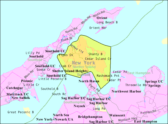 U.S. Census 2000 reference map for Shelter Island